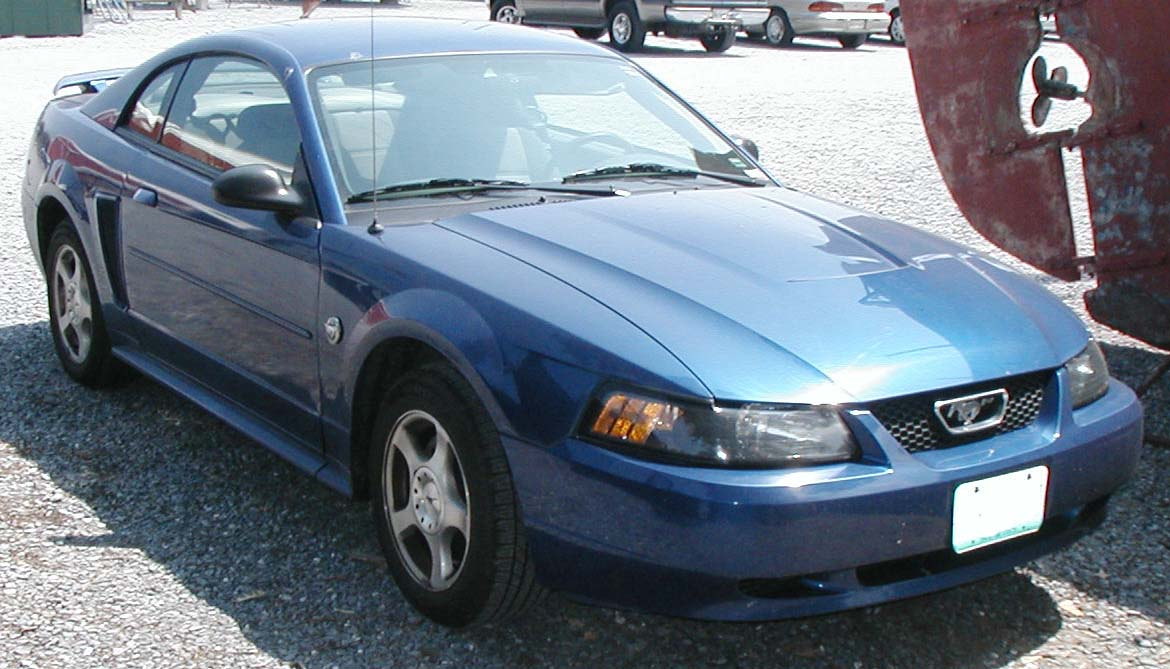 2004 Ford Mustang coupe photographed in USA.